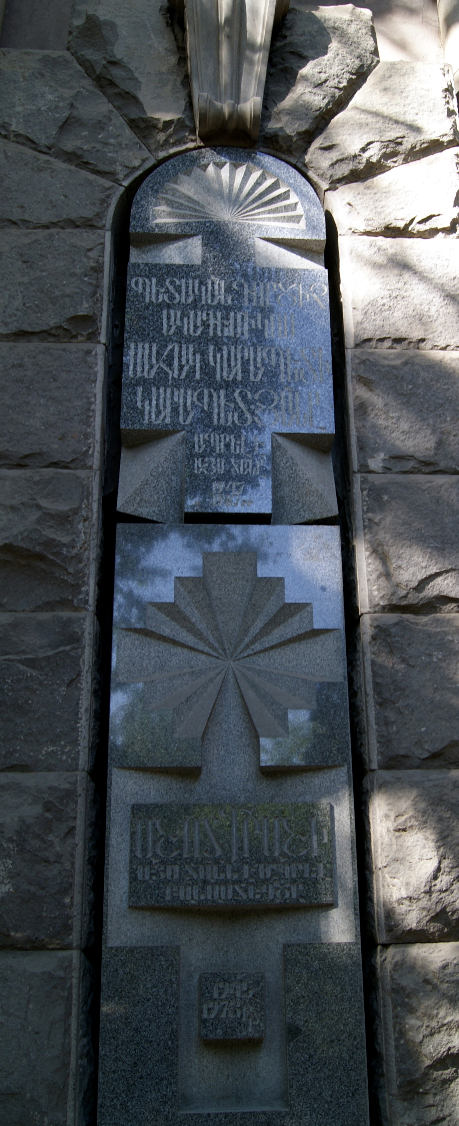 Sahak Karapetyan's & Ashot Grashi's plaques on Baghramyan Avenue, Yerevan